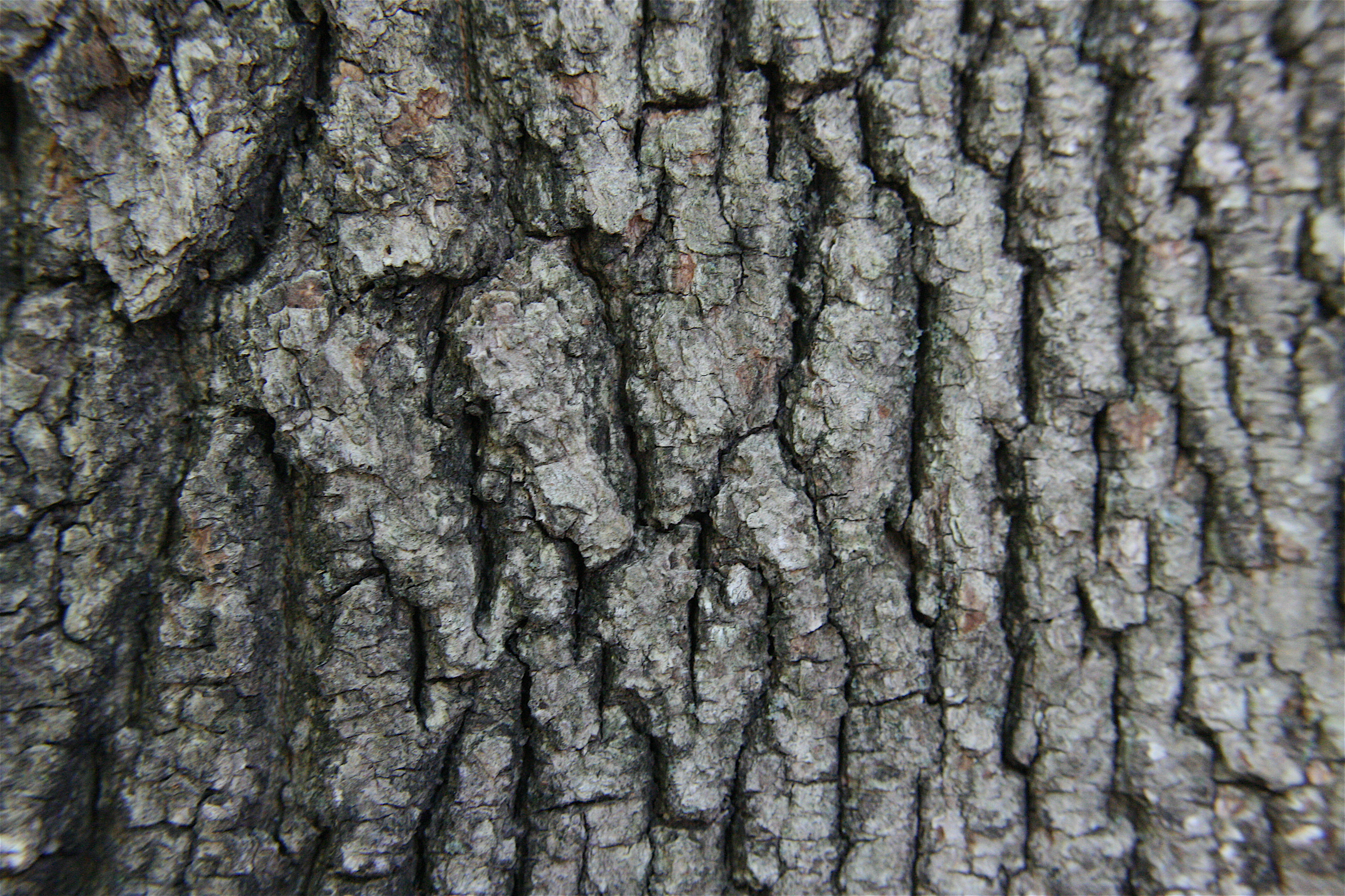 A close-up of mature Acer rubrum bark. The tree is located in Portage, Michigan.